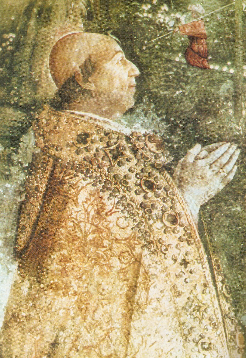 Alexander VI, part of fresco